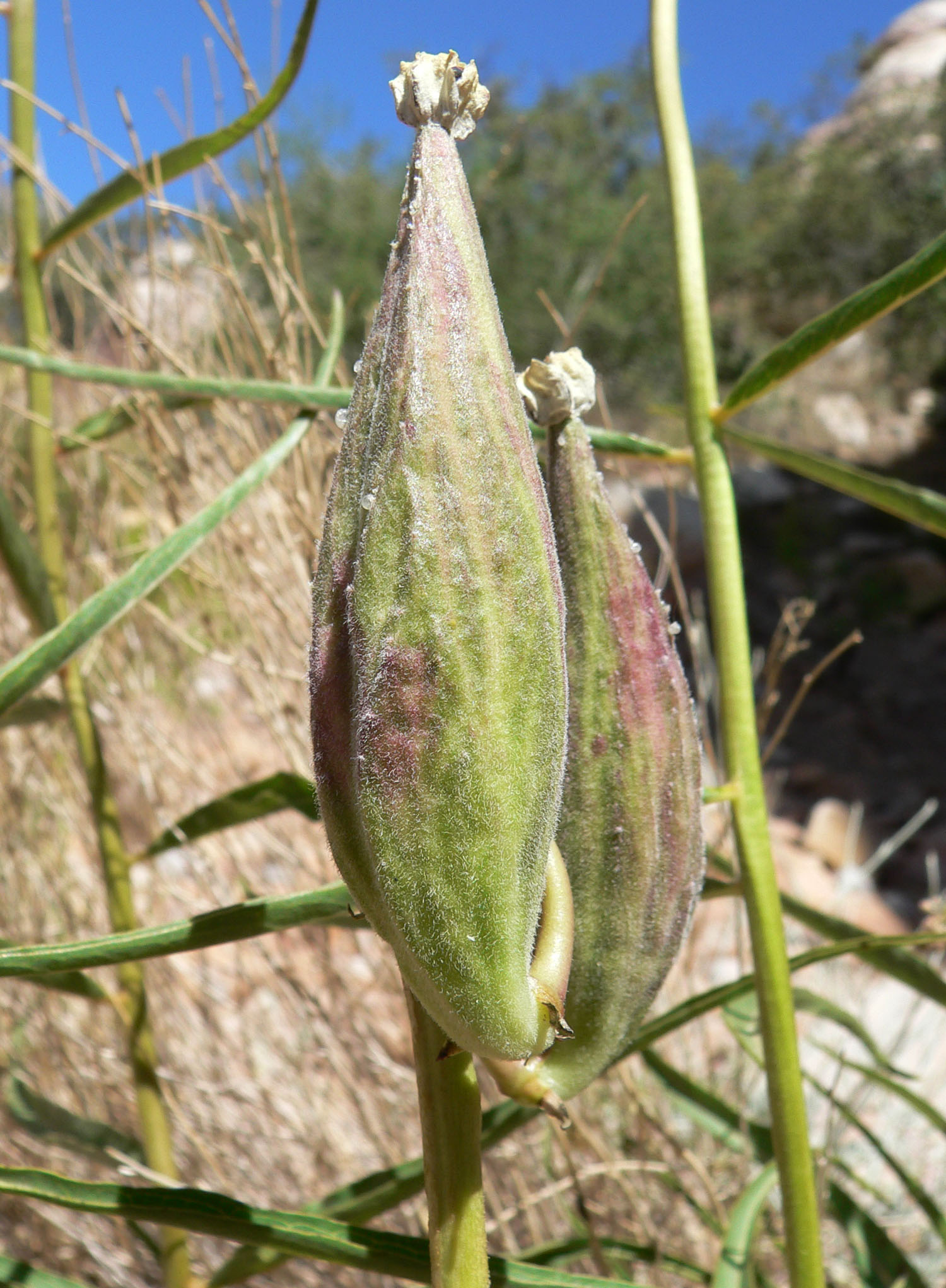 Asclepias asperula near Willow Spring, Red Rock Canyon, southern Nevada